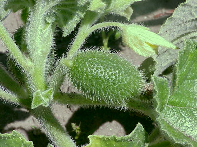 Name Ecballium elaterium Family Cucurbitaceae Image no. 2